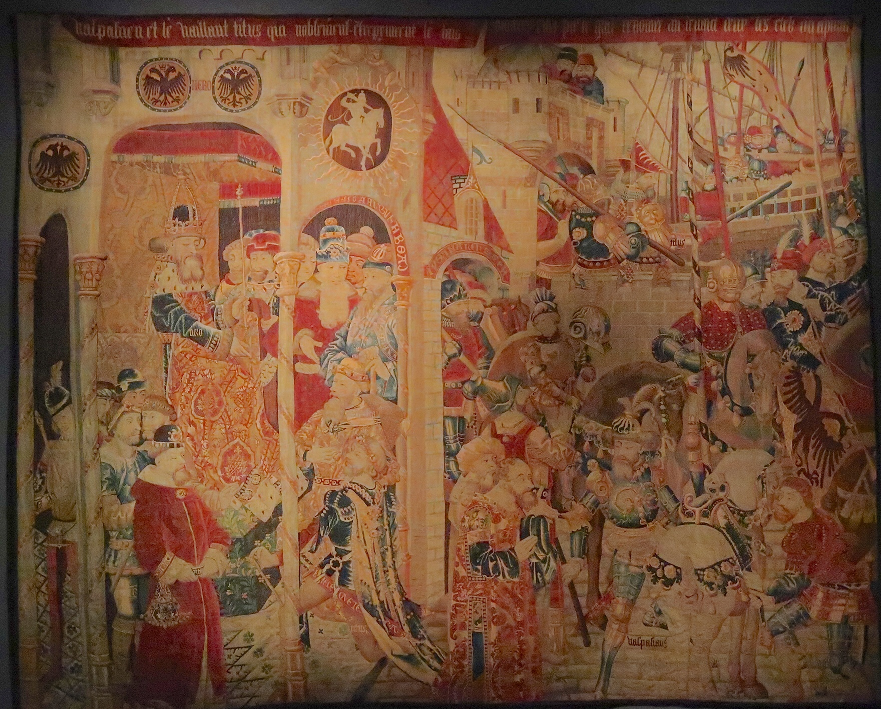 Hanging of the Destruction of Jerusalem : Nero sends Vespasian and Titus to Judea. Tapestry, Tournai 1465-1475. MTMAD Lyon. MT 25926.